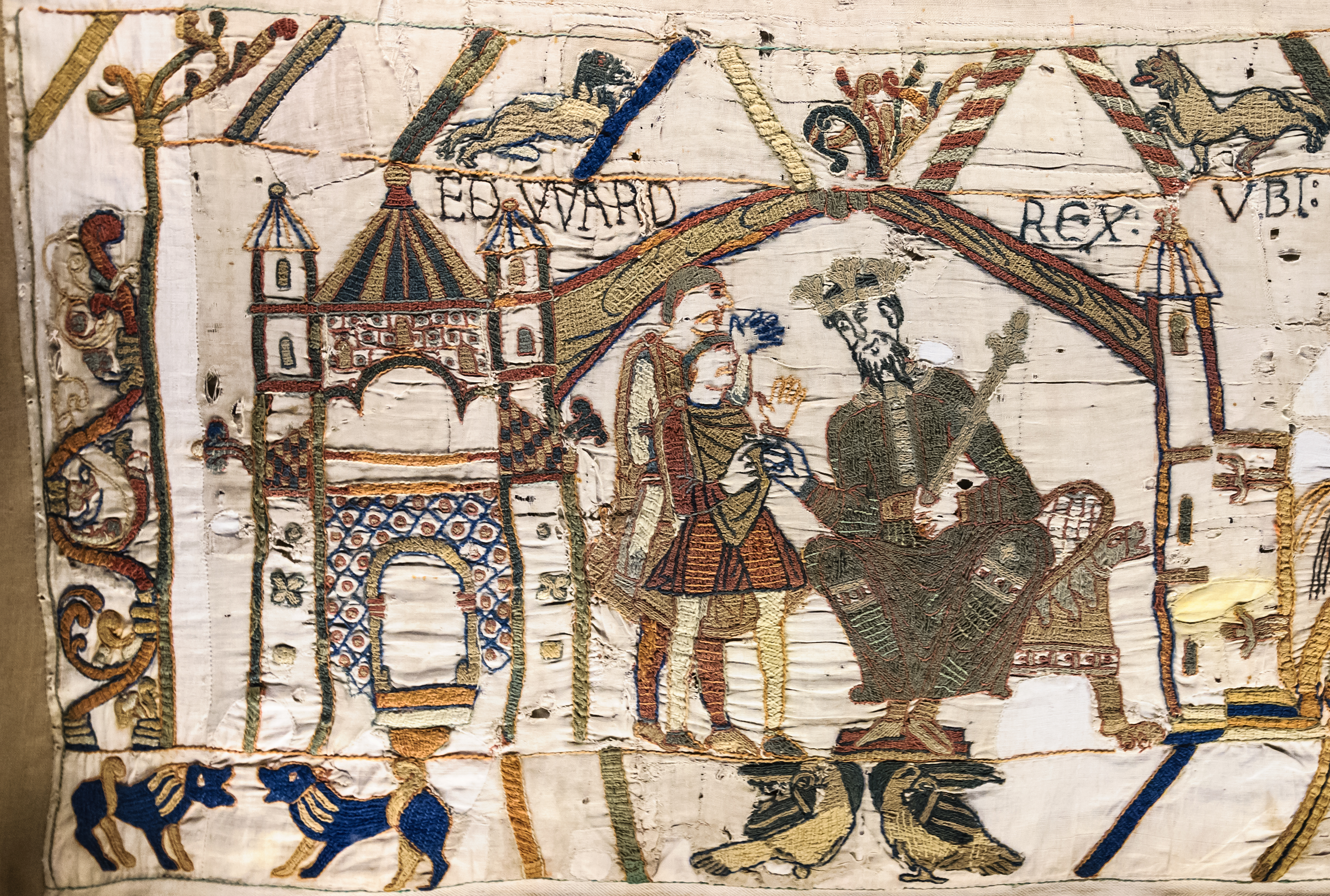 Bayeux Tapestry - Scene 1 : King Edward the Confessor and Harold Godwinson at Winchester.